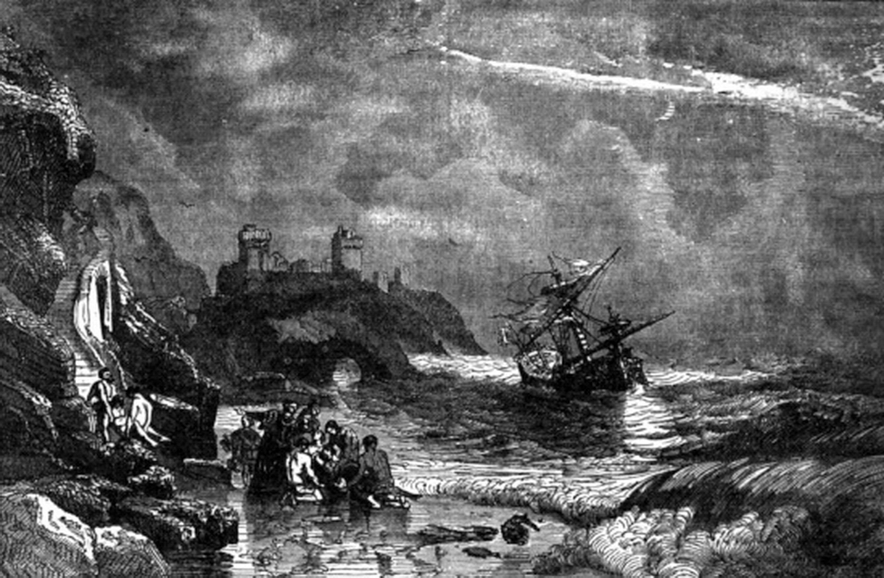 The title is the same as the image caption above & in "Cassell's Illustrated History of England, Volume 2". The number shown is the page number. Follow the image link to the full book vol.2.